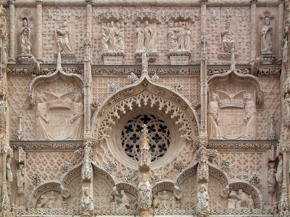 Detail on the facade of Iglesia conventual de San Pablo, Valladolid, Castile and León, Spain